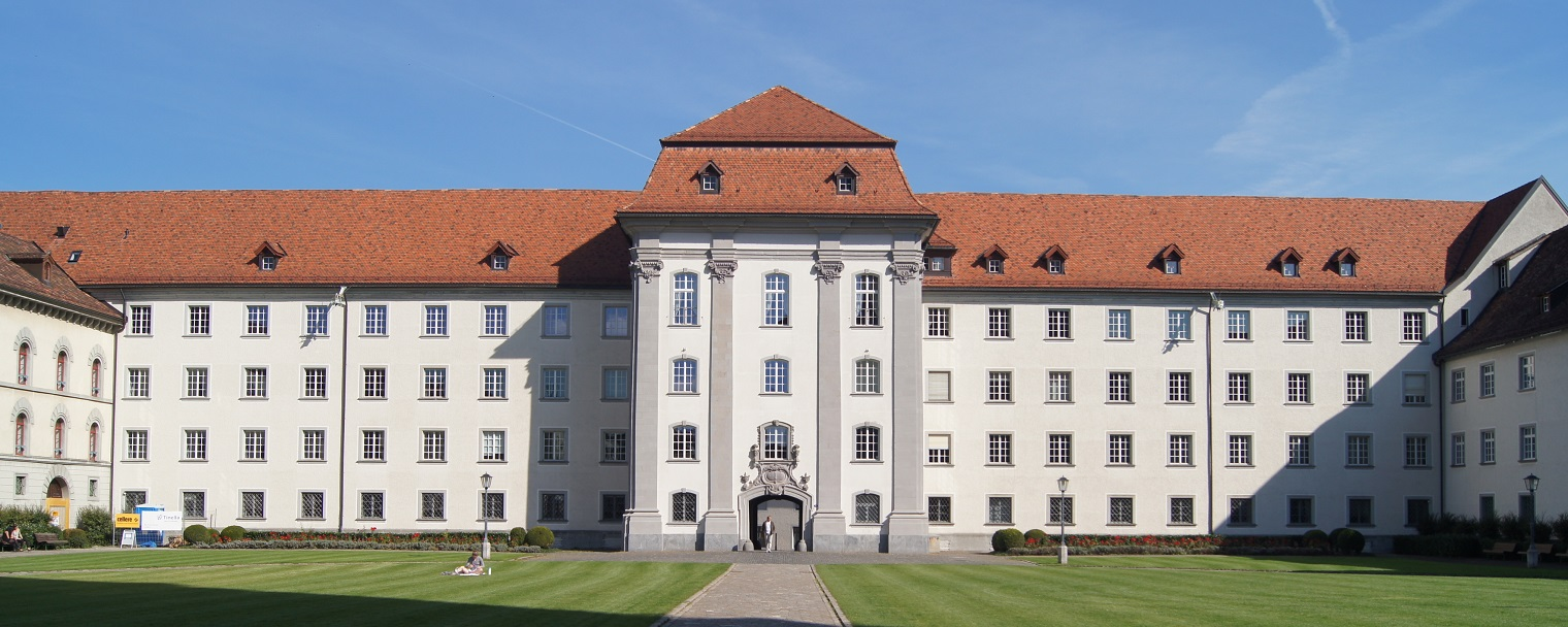 Neue Pfalz - seat of the cantonal governement in St. Gall